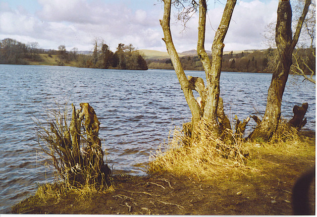 Clunie Castle Island, Loch of Clunie. West of Blairgowrie, this ruined 16th Century castle may have been the home of "Admirable Crichton". a talented scholar and writer.